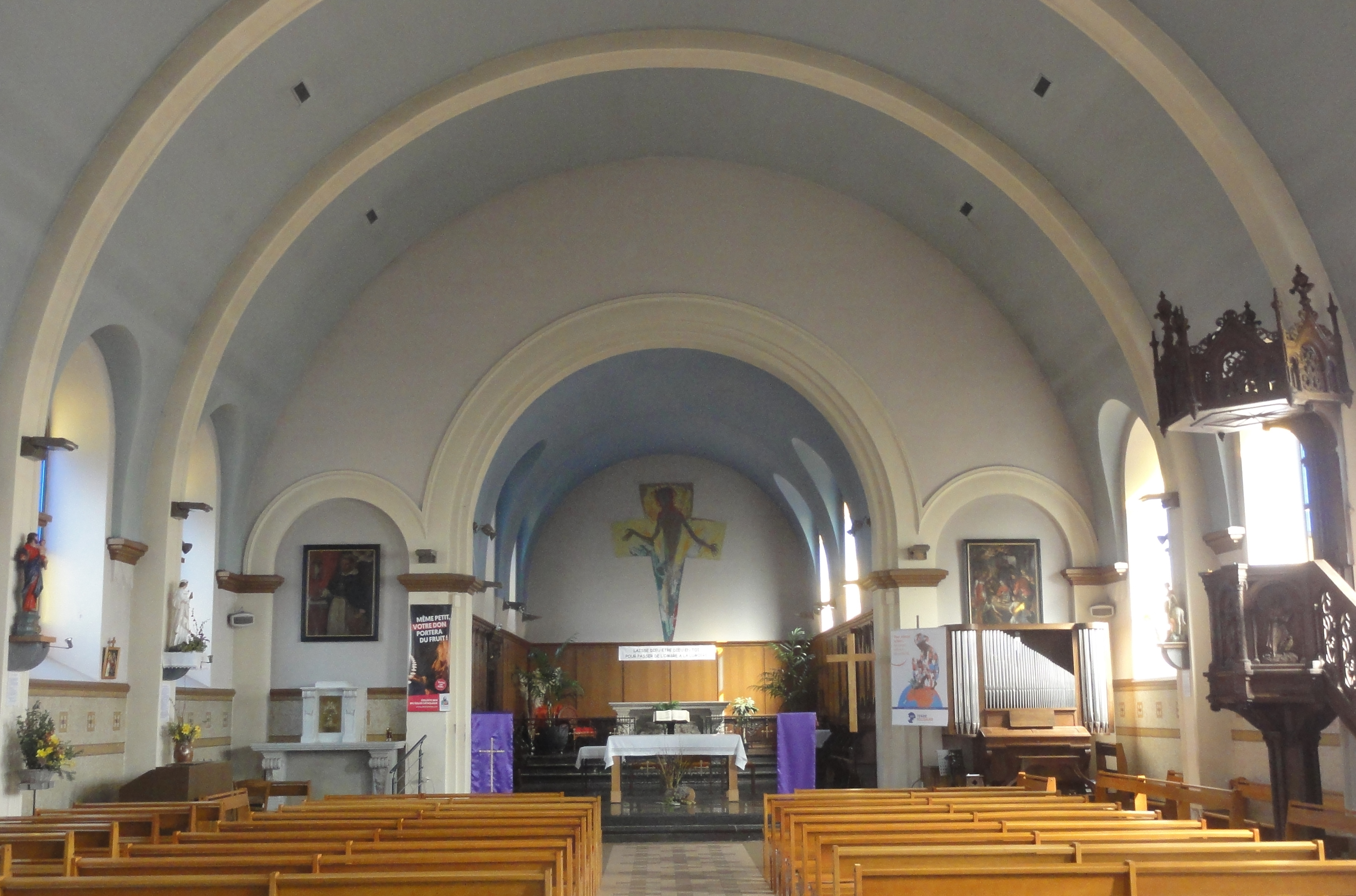 Depicted place: Q41784327